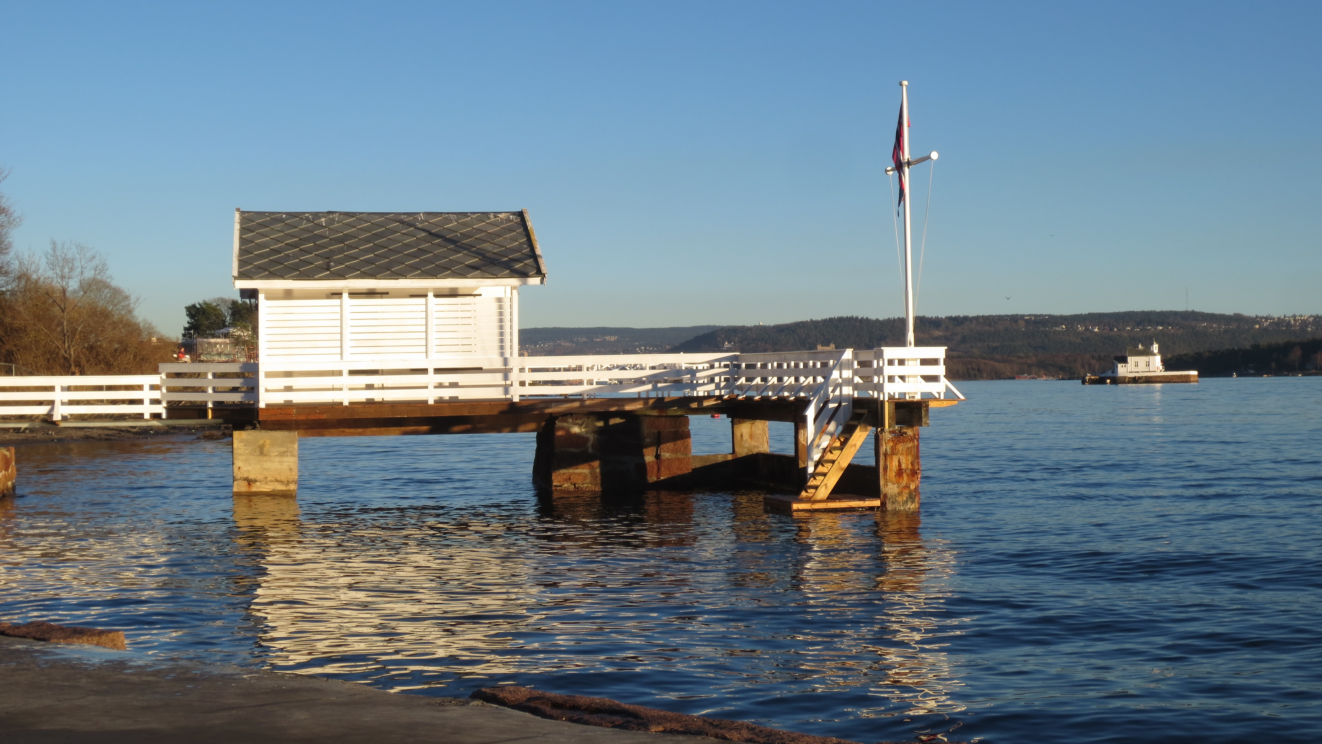 Bath House at the southeastern tip of the Bygdøy peninsula, Oslo.